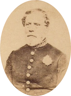 Manuel Marques de Sousa, Count of Porto Alegre, c.1867.